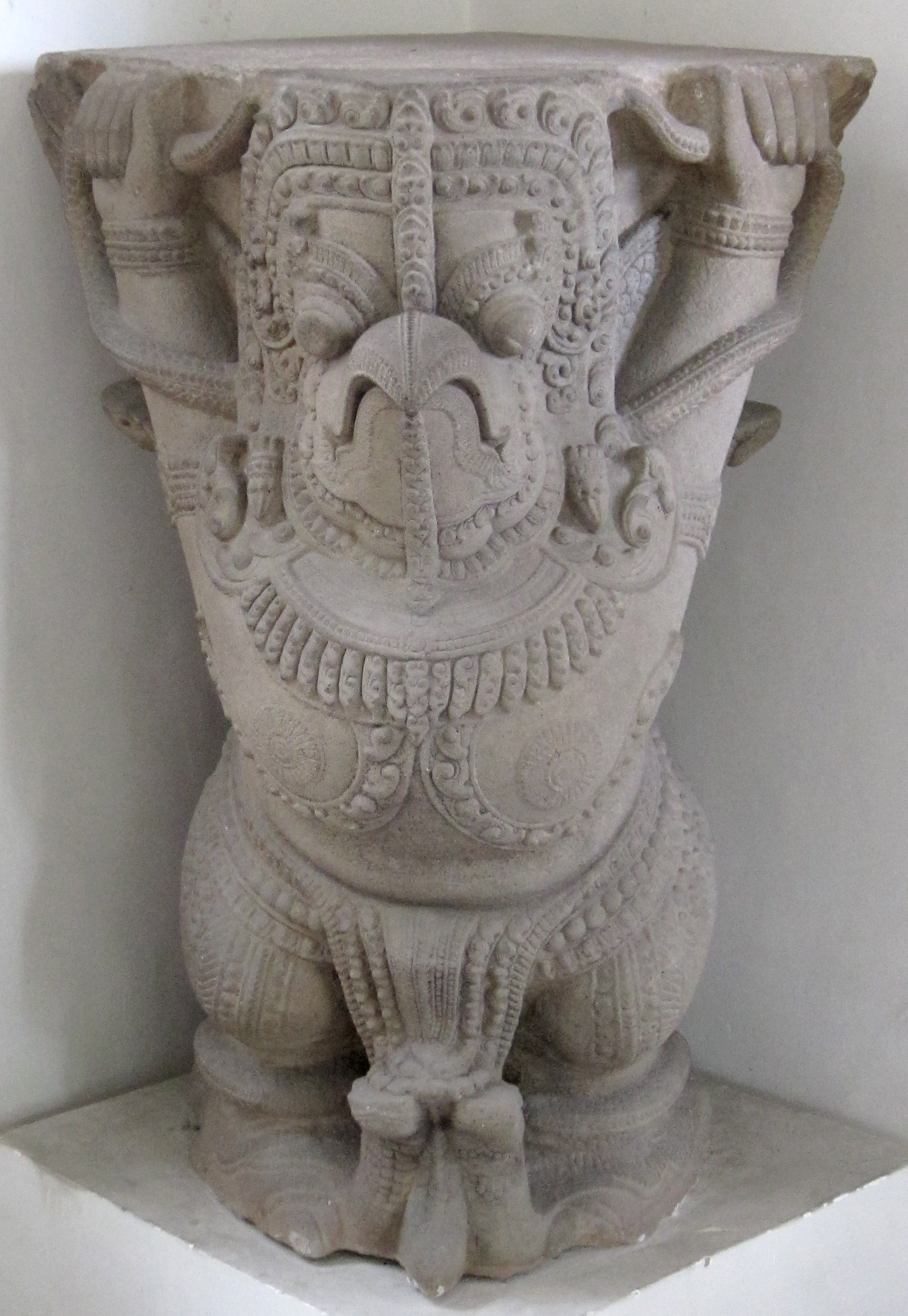 Holy Bird Garuda, 13th century, Museum of Cham Sculpture